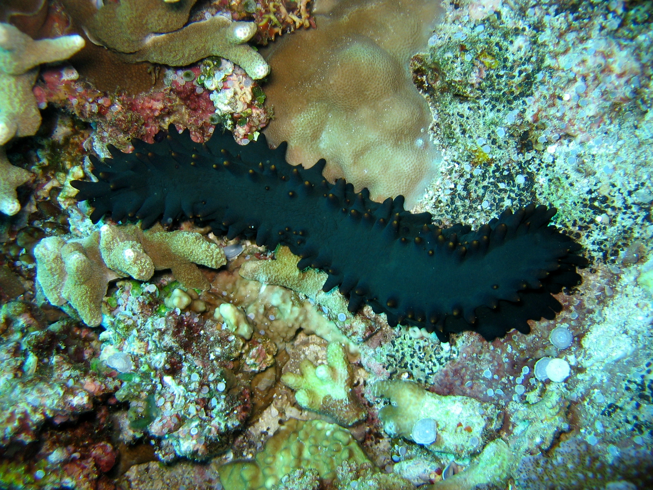 A sea cucumber (Stichopus chloronotus). Philippine Islands, Occidental Mindoro, Apo Reef.